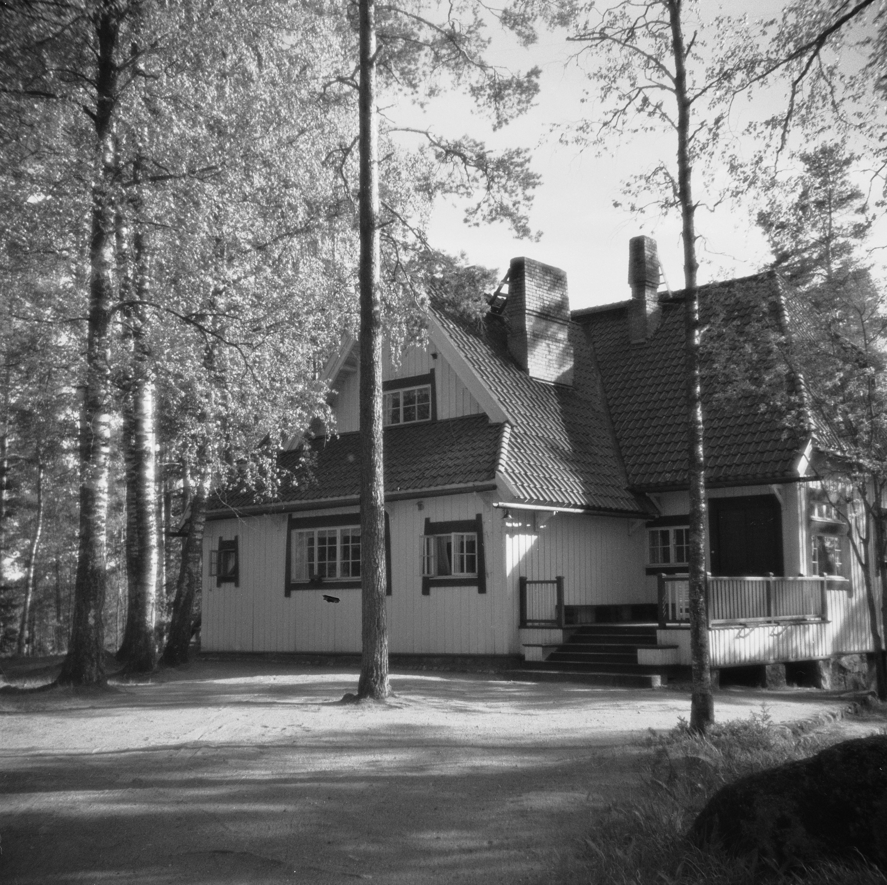 Santeri Levas: "The home of the musical genius", 1940-1945, Järvenpää. Digitized original negative.